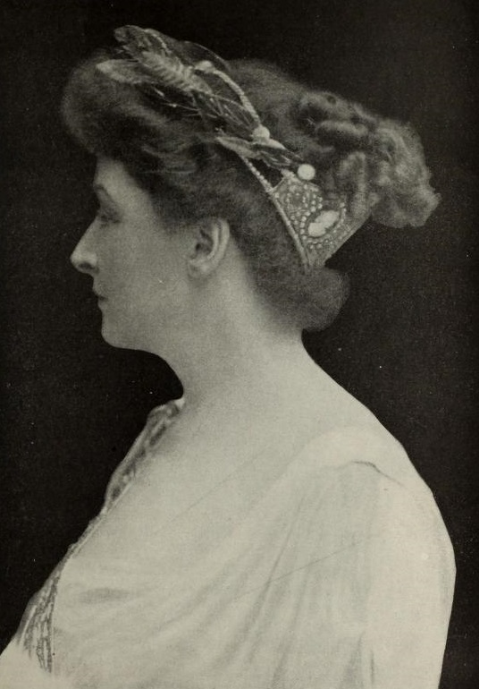 Portrait of Emma Eames